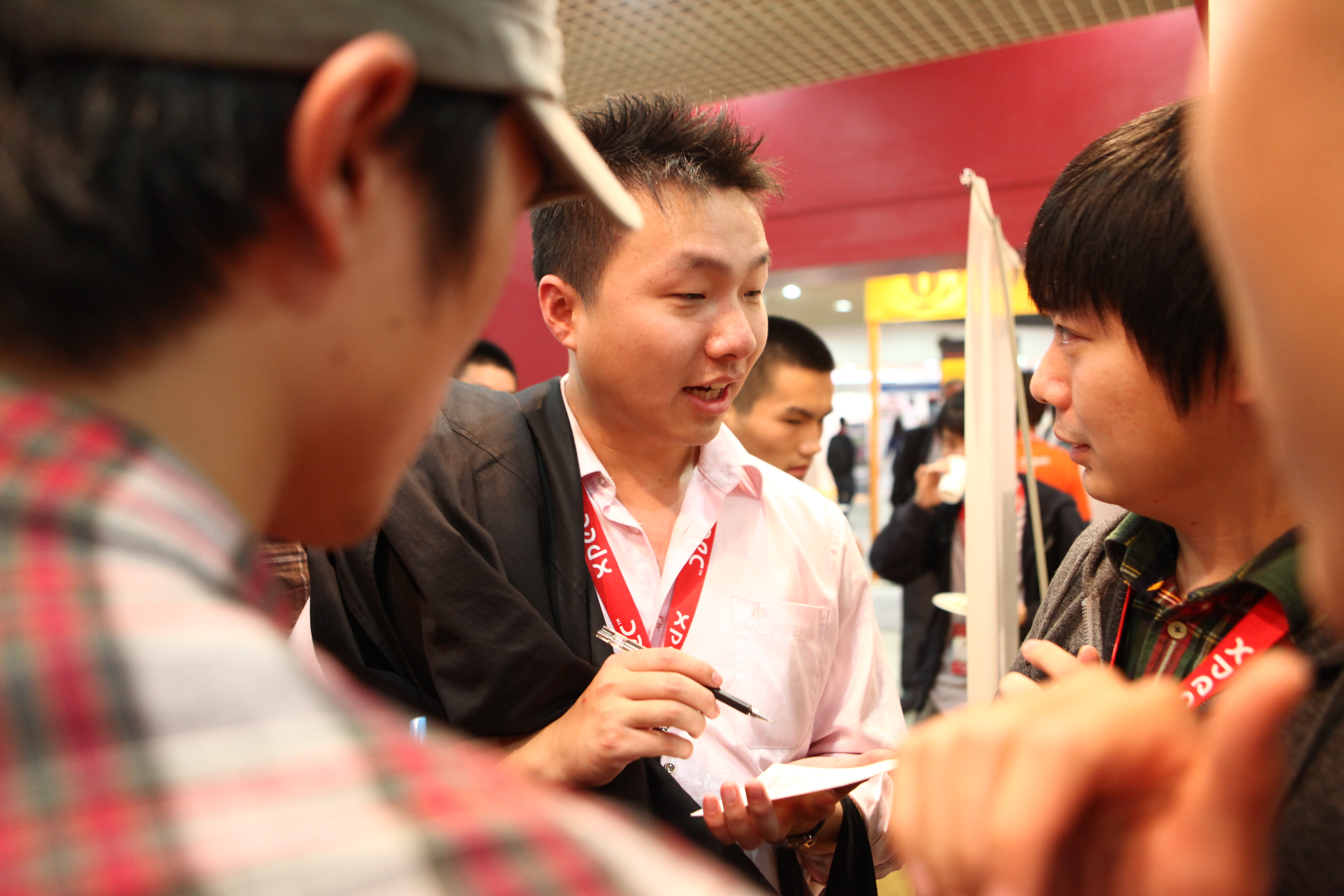 Jenova Chen during his keynote at GDC China 2011.